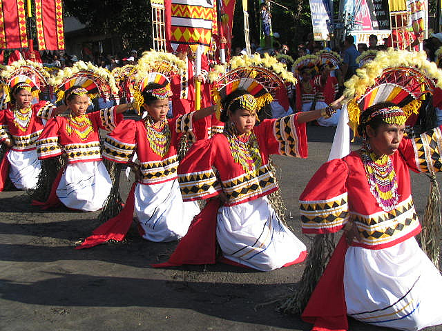 kaamulan street dancing